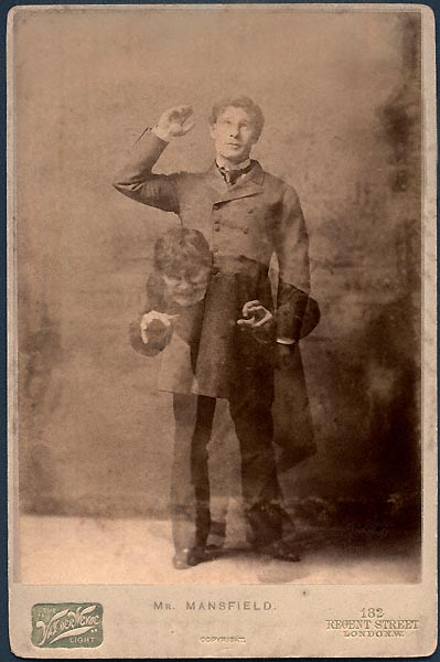 Richard Mansfield was best known for the dual role depicted in this double exposure: he starred in Dr. Jekyll and Mr. Hyde in both New York and London. The stage adaptation opened in New York in 1887 and London in 1888.